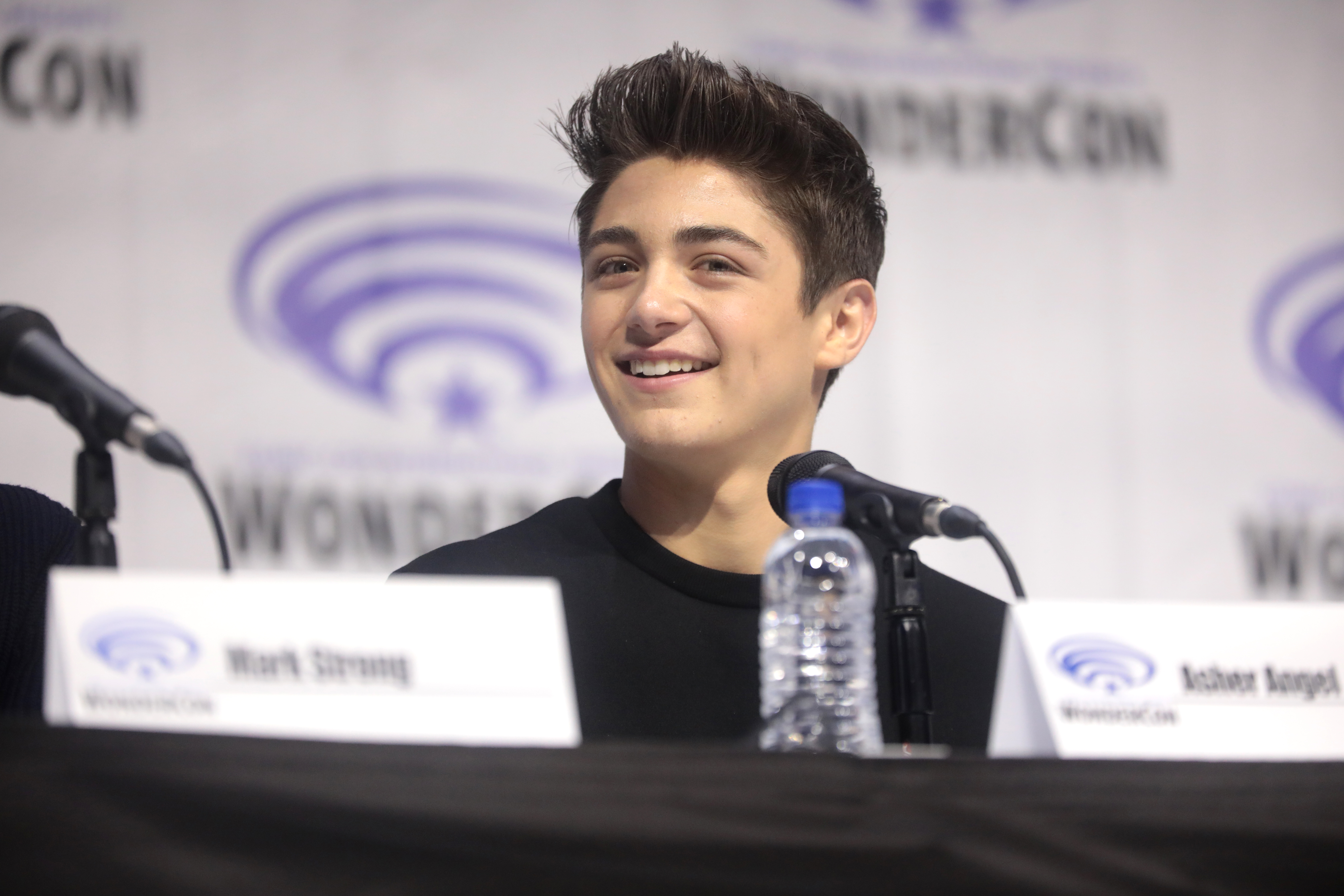 Asher Angel speaking at the 2019 WonderCon, for "Shazam!", at the Anaheim Convention Center in Anaheim, California.